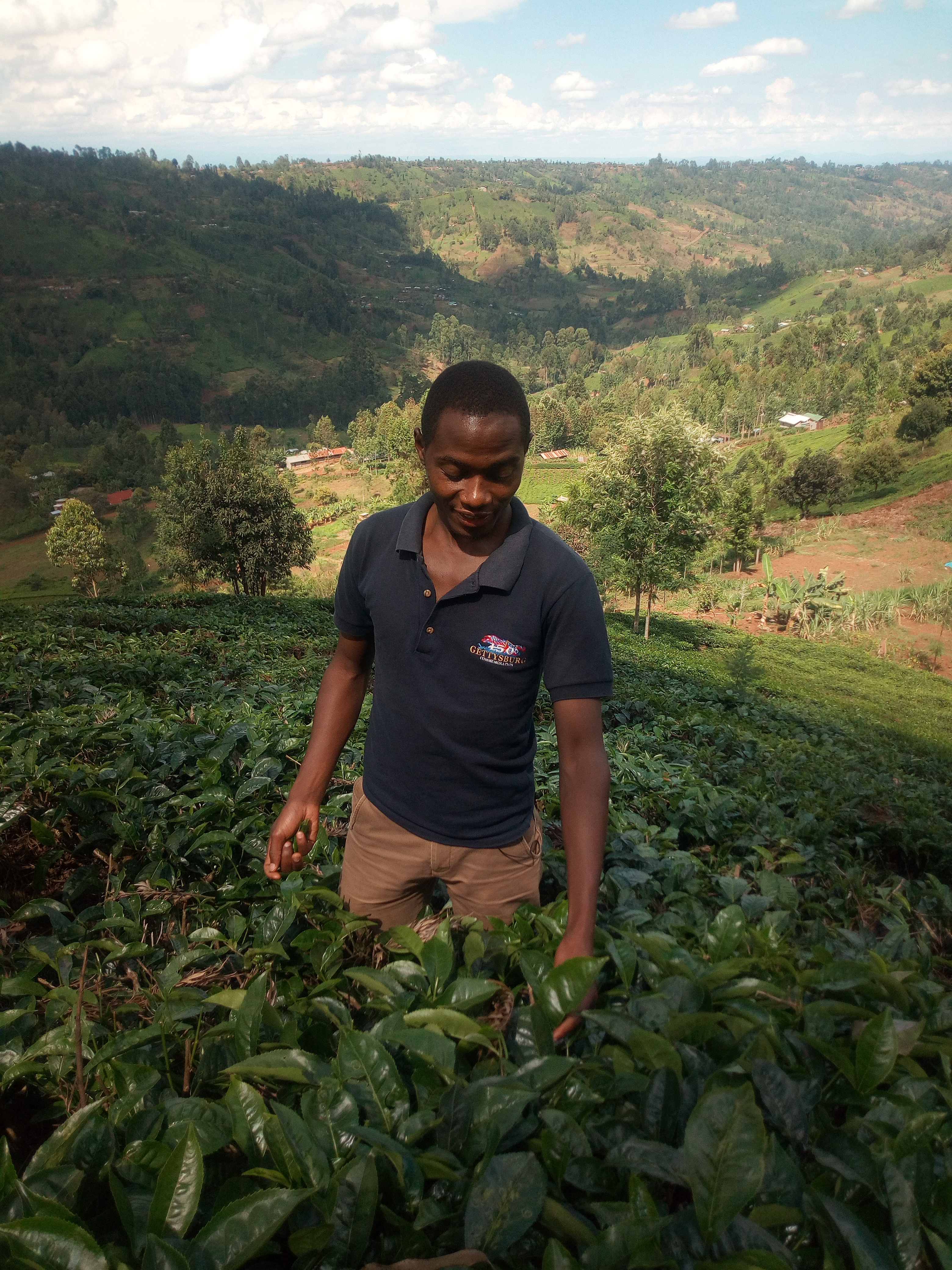 Muranga County in kenya where tea farming is carried out. This is an image of "African people at work" from Kenya